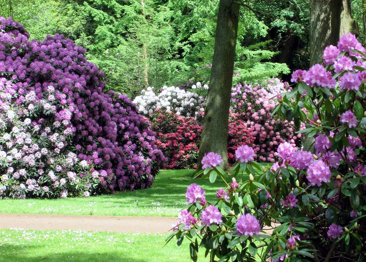 “Rhododendronpark”, the rhododendron park in Bremen (Germany).